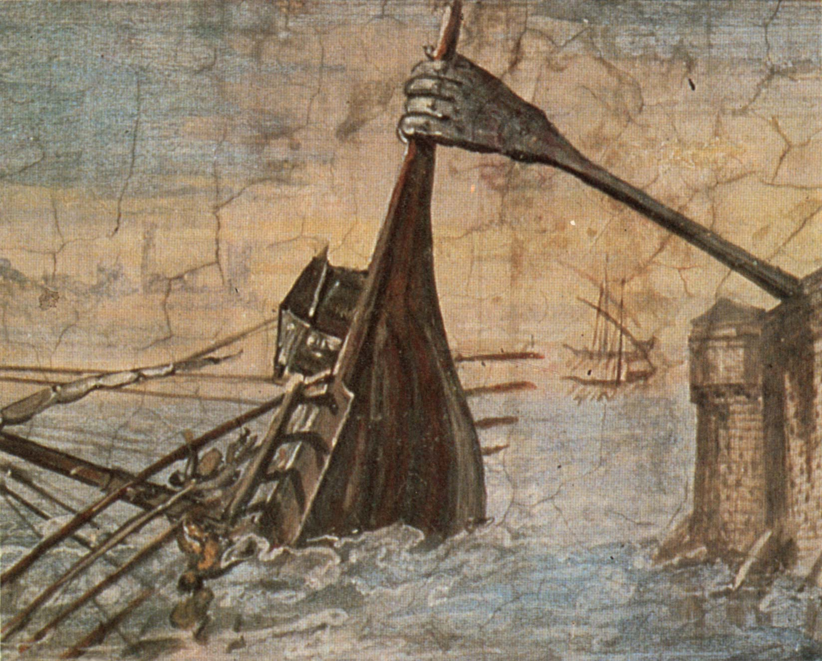 Detail of a wall painting of the Claw of Archimedes sinking a ship, taking the name "iron hand" in the ancient sources literally